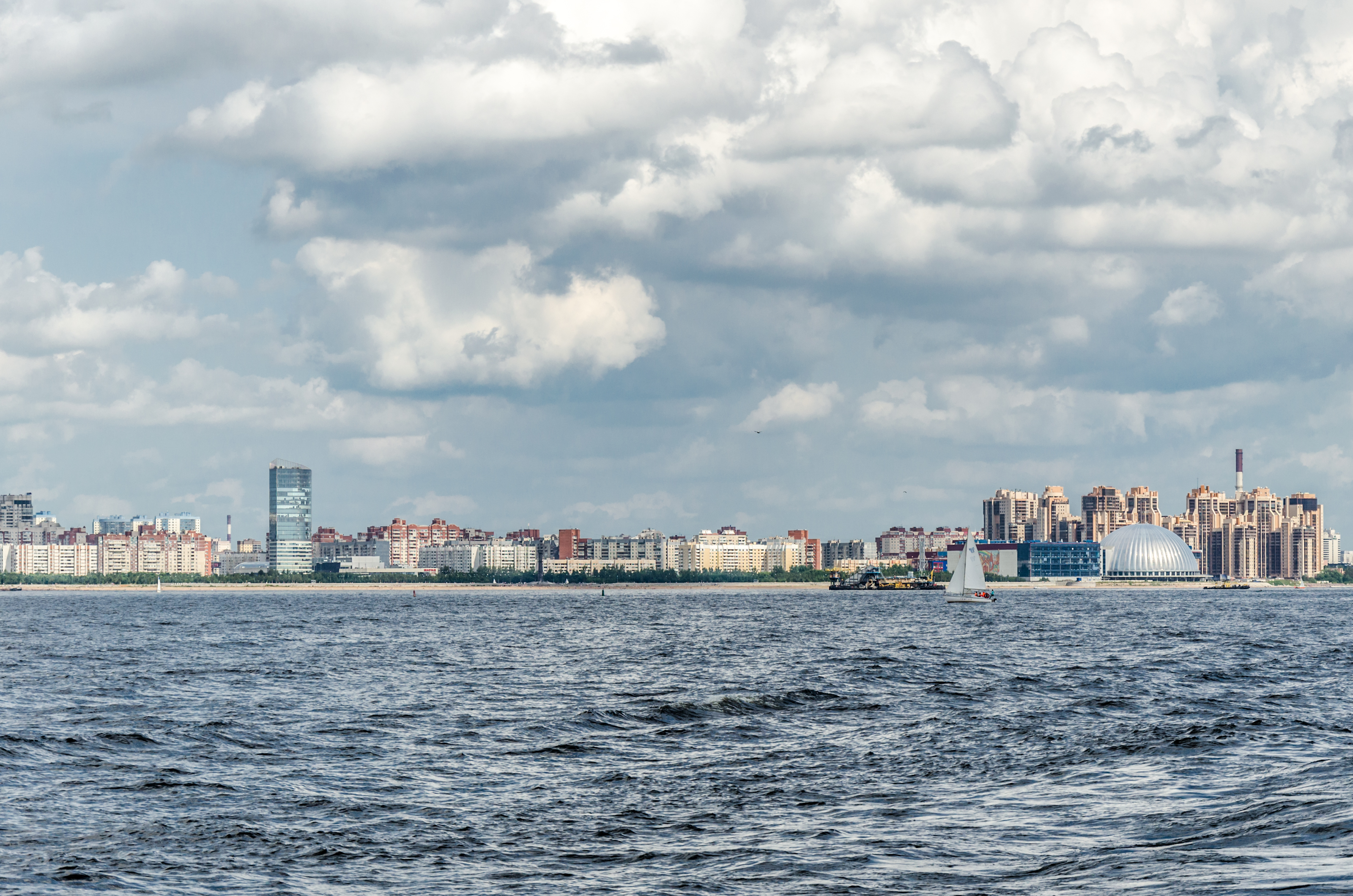 View to Primorskiy district of Saint Petersburg